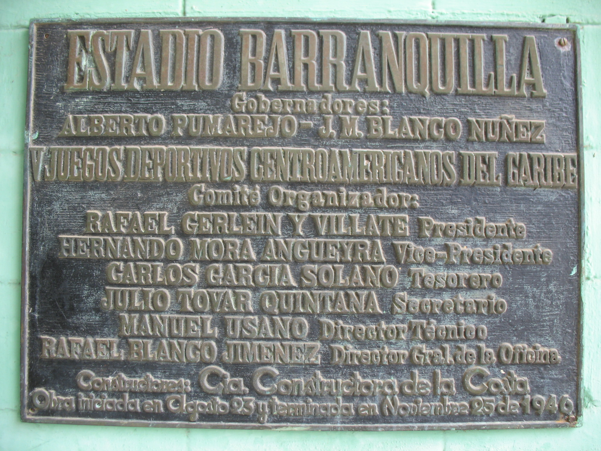 Commemorative plaque at Tomás Arrieta Stadium, Barranquilla, Colombia.